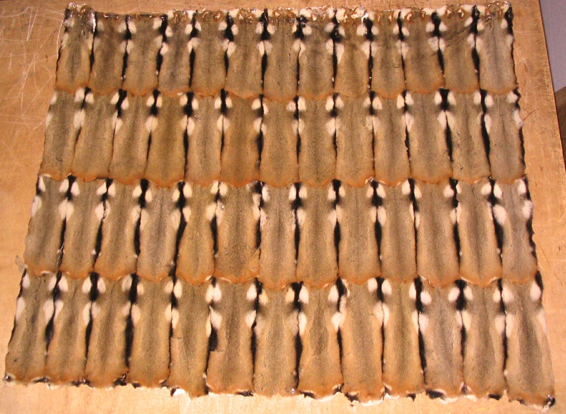 Hamsterfutter (Pelz-Halbfertigprodukt). Traditionelle handelsübliche Handelsform für den europäischen Hamster überhaupt. Abgebildet ein 4-Zeiler